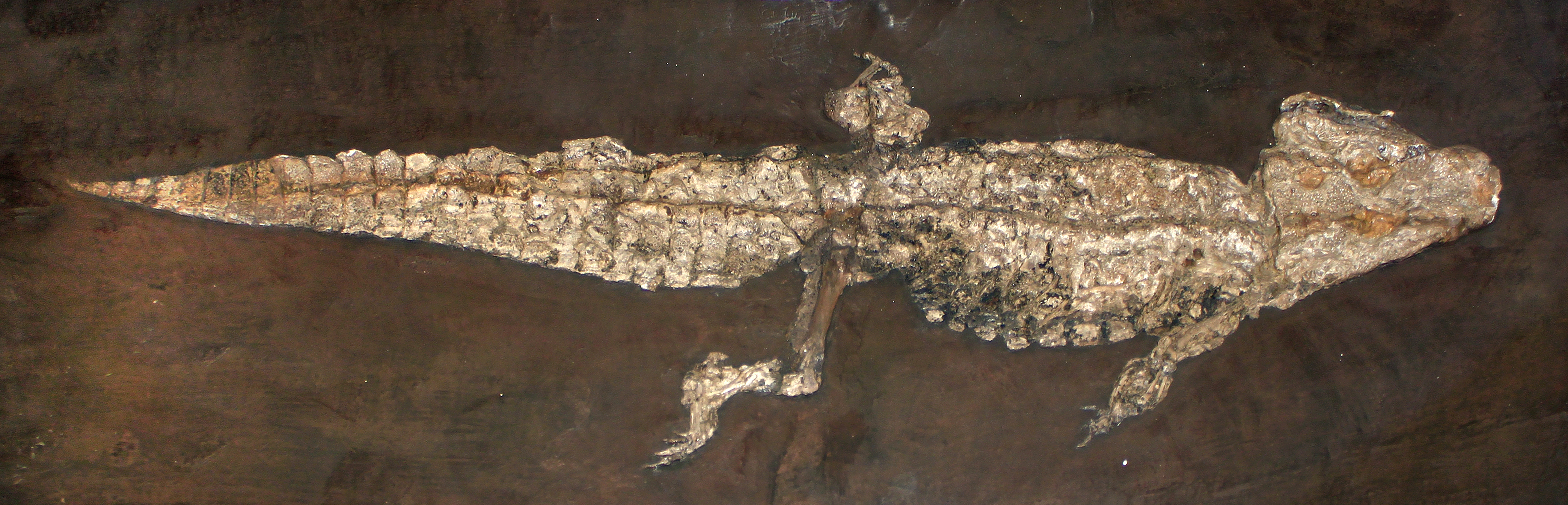 Hassiacosuchus haupti, Alligatoridae; Eocene, Messel Germany; Staatliches Museum für Naturkunde Karlsruhe, Germany.